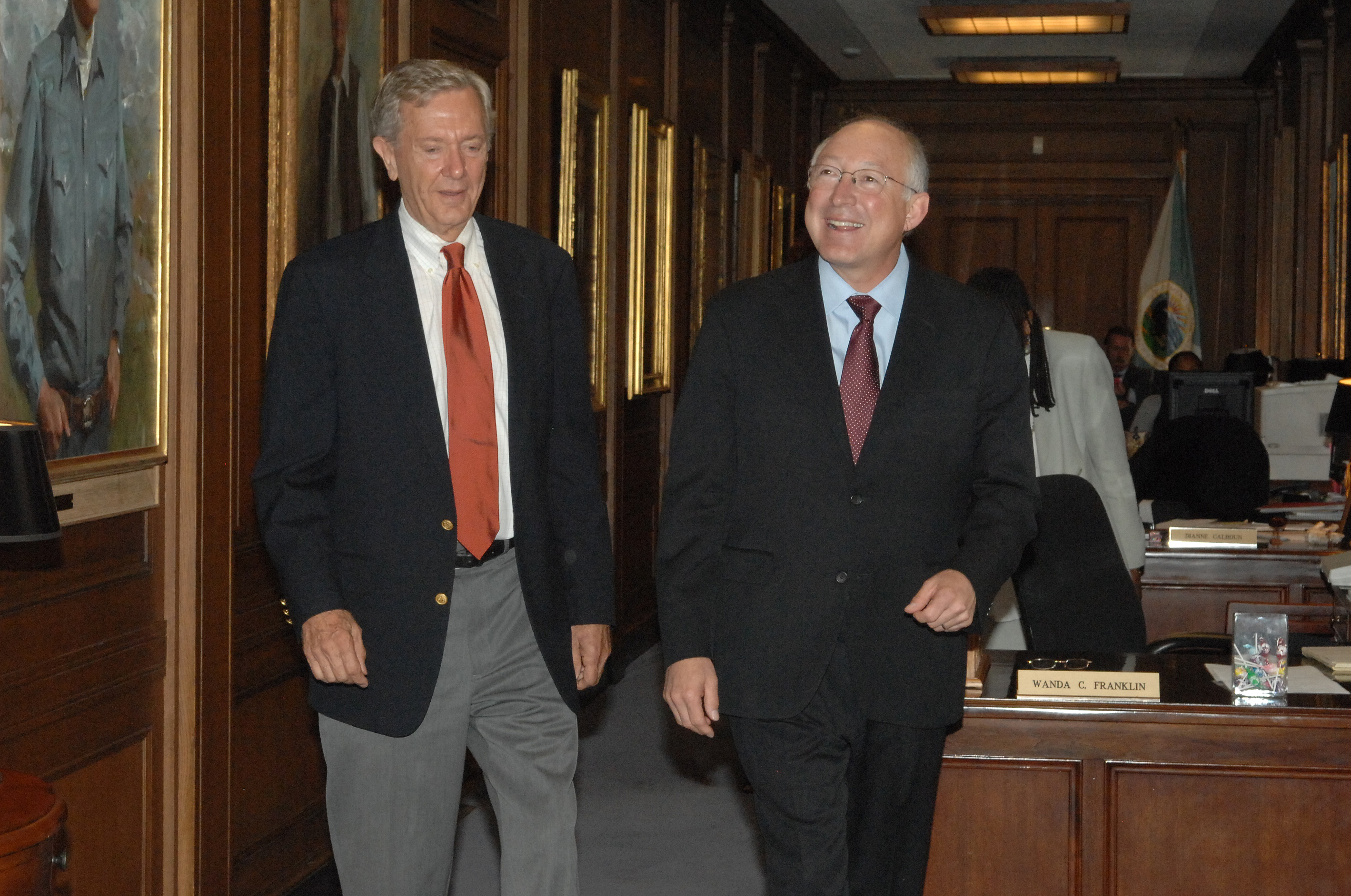 Secretary Ken Salazar [with former Secretary of the Interior] Bruce Babbitt [at Interior headquarters, Washington, D.C.]